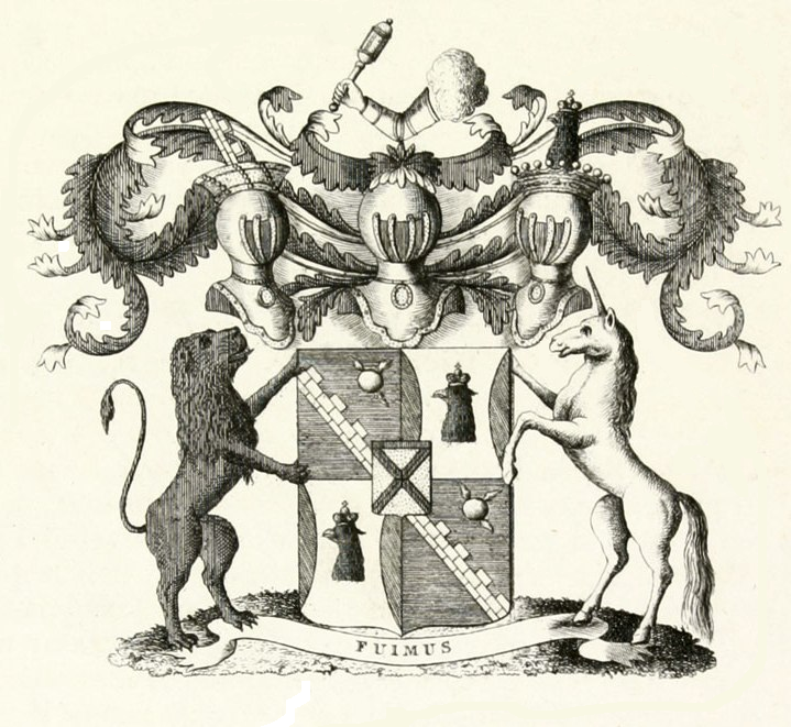 Coat of arms of the Counts of Bruce (Bryus) family.